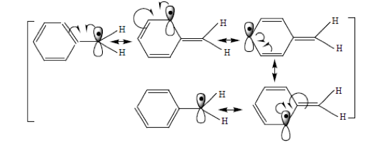 dfsdfasd